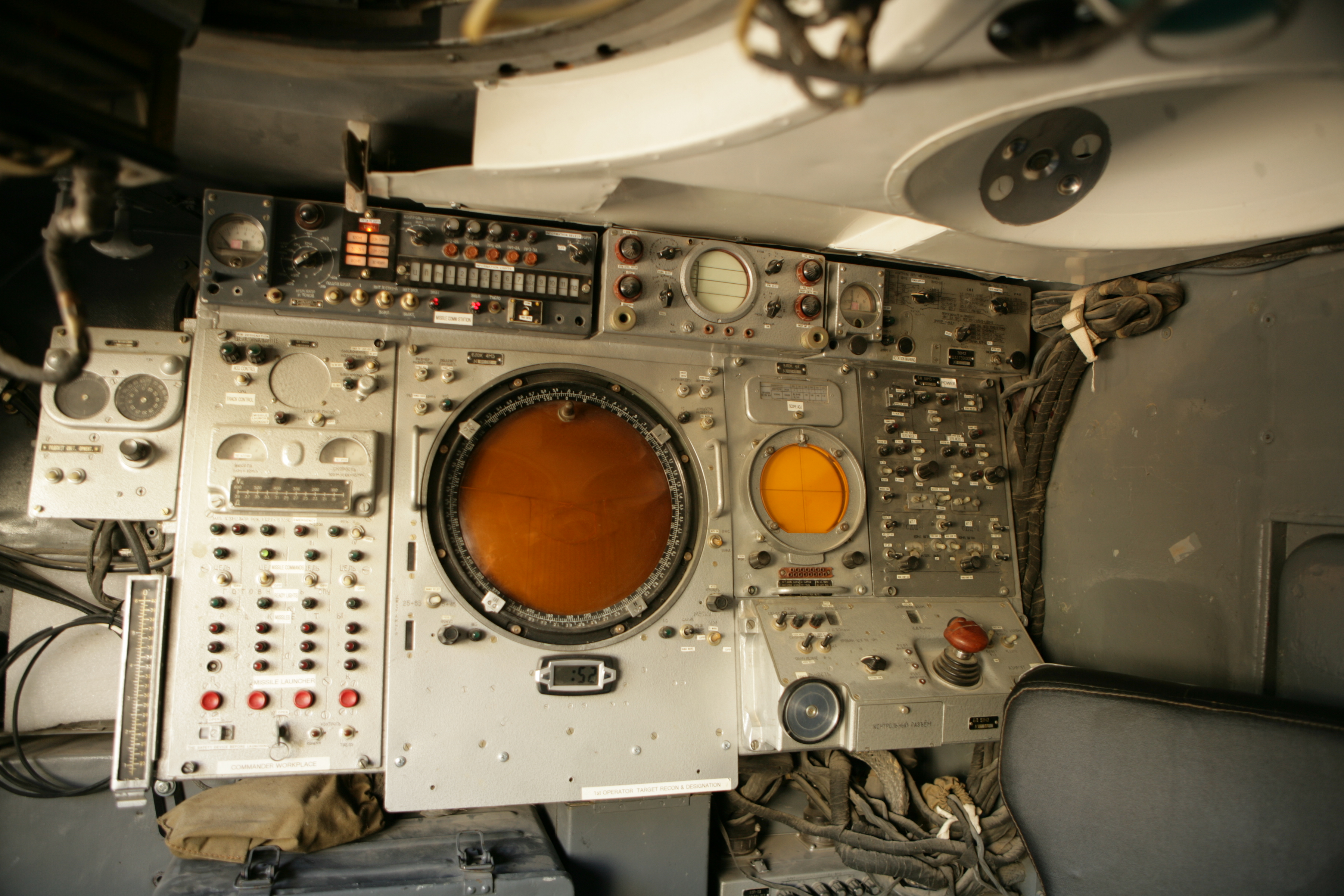 A missile guidance system control station is inside a former Soviet ZRK-SD Kub Straight Flush radar system parked at Marine Corps Air Station Yuma, Ariz., April 3, 2010.